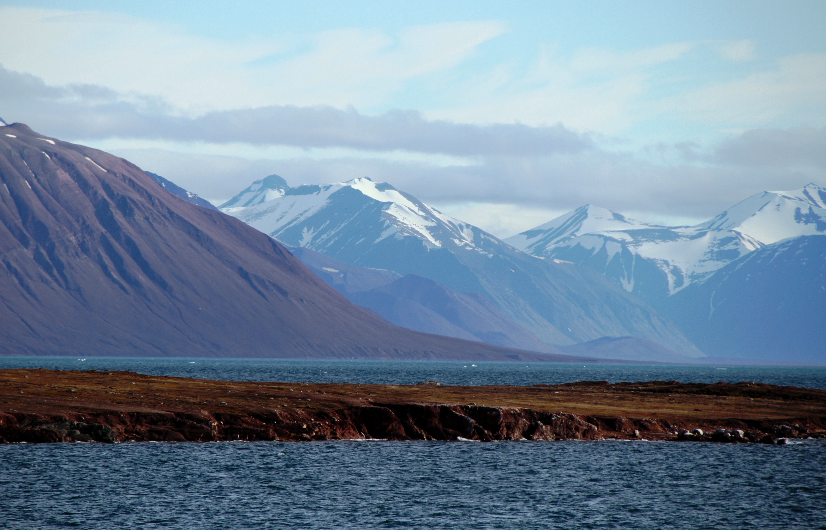 Western part of Andree land, along the eastern woodfjorden coast, northern Spitsbergen, Svalbard.